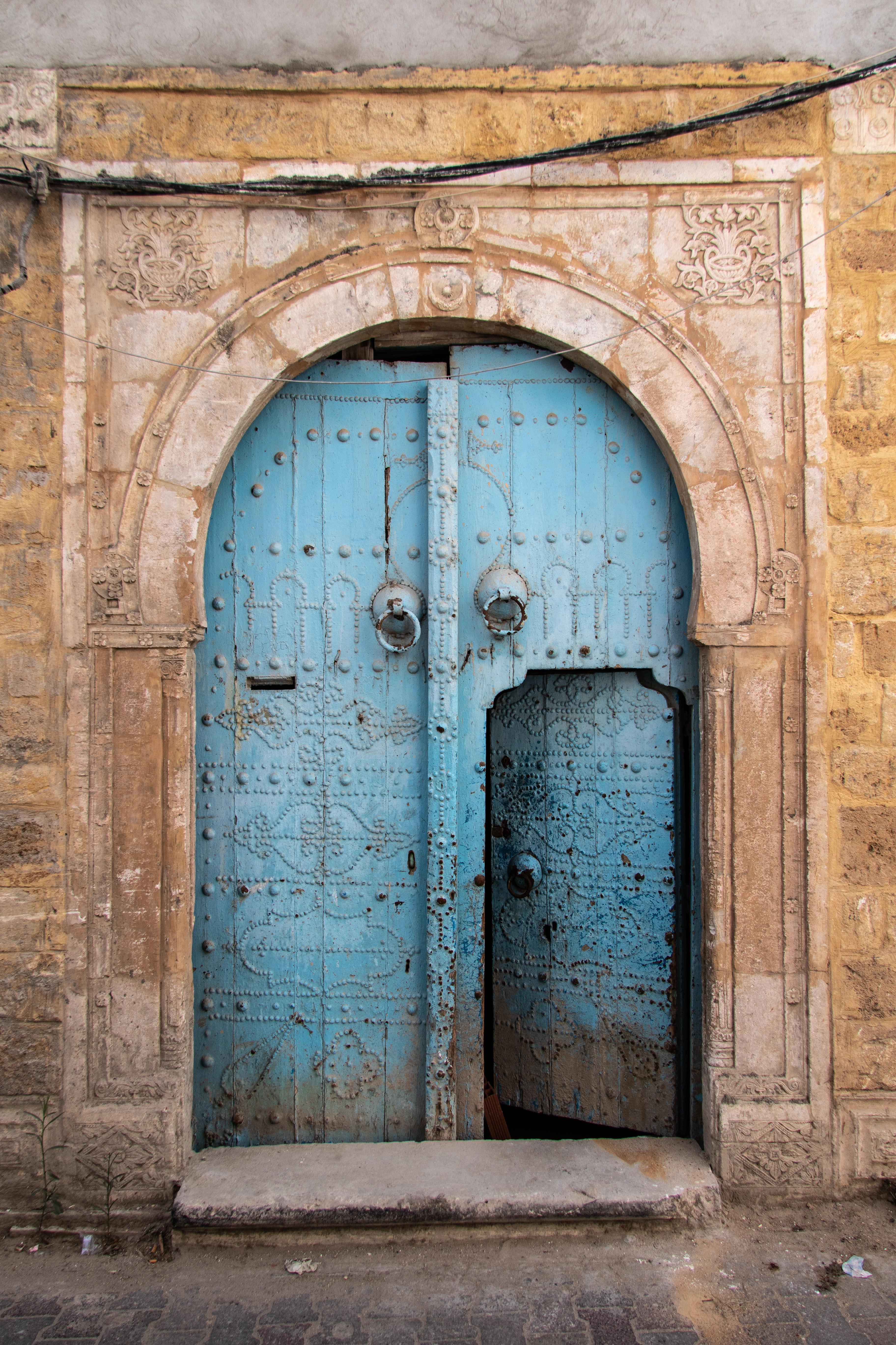 Not since Zanzibar, have I encountered such distinctive doorways. These are quite different as they normally front an archway entrance and often have smaller doors built into the large wooden facade. They mostly come in blue or yellow and very occcasionally other colours such as green and orange.